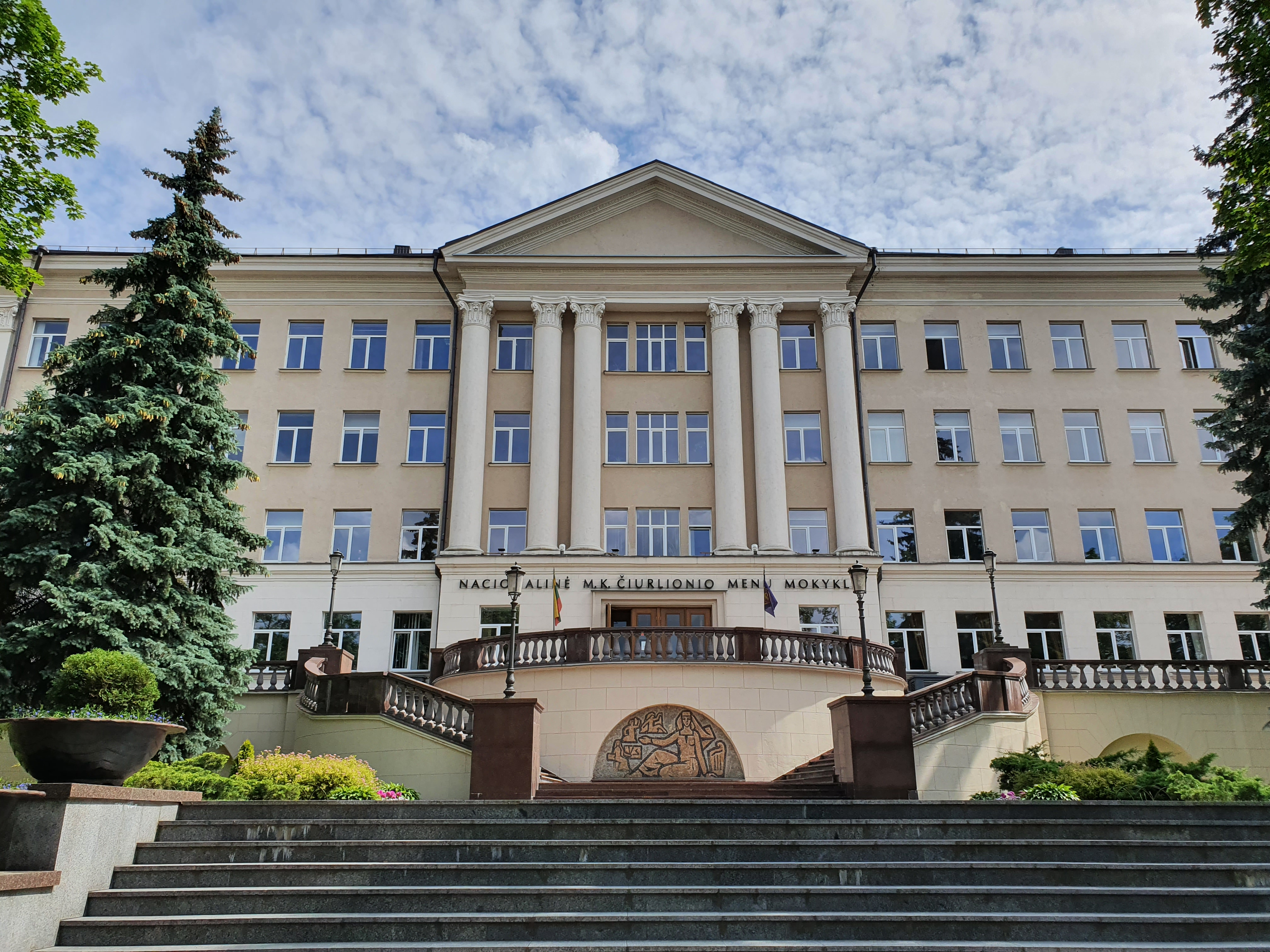 Main entrance of the National M. K. Čiurlionis School of Art.